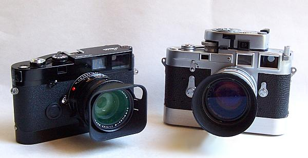 The Black Paint Leica MP of 2003 (with 35mm f1.4 Summilux Aspheric) and Leicavit trigger winder, alongside the M3 of 1954 (with 50mm f1.4 Summilux). The M3 was originally an early double-stroke model, but was adapted to single-stroke and modified to take the Leicavit-like Abrahamsson Rapidwinder trigger-winder and a Wasserman rewind crank.